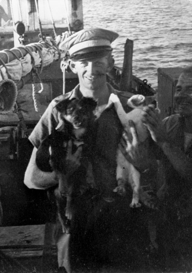 Major D. J. Stott, SOE agent in Greece during World War II, on a ship in the Mediterranean. Taken in the period 1942-1944 by an unidentified photographer.